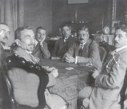 Talaat Pasha and his friends during their escape